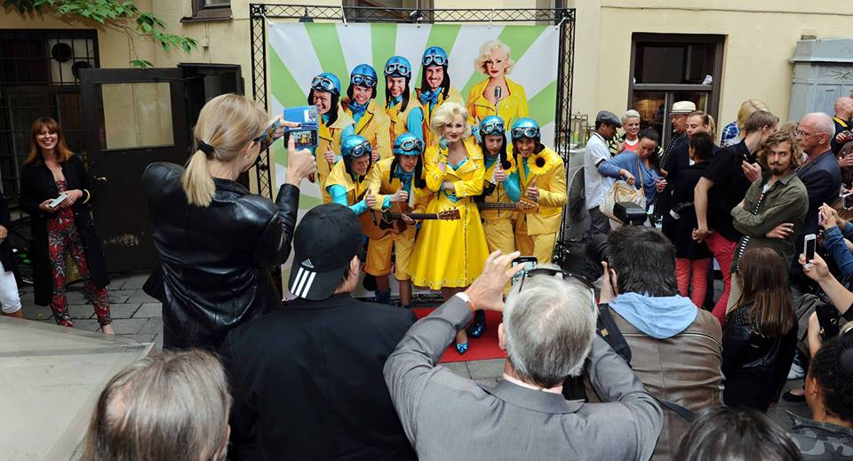 Diamond Dogz